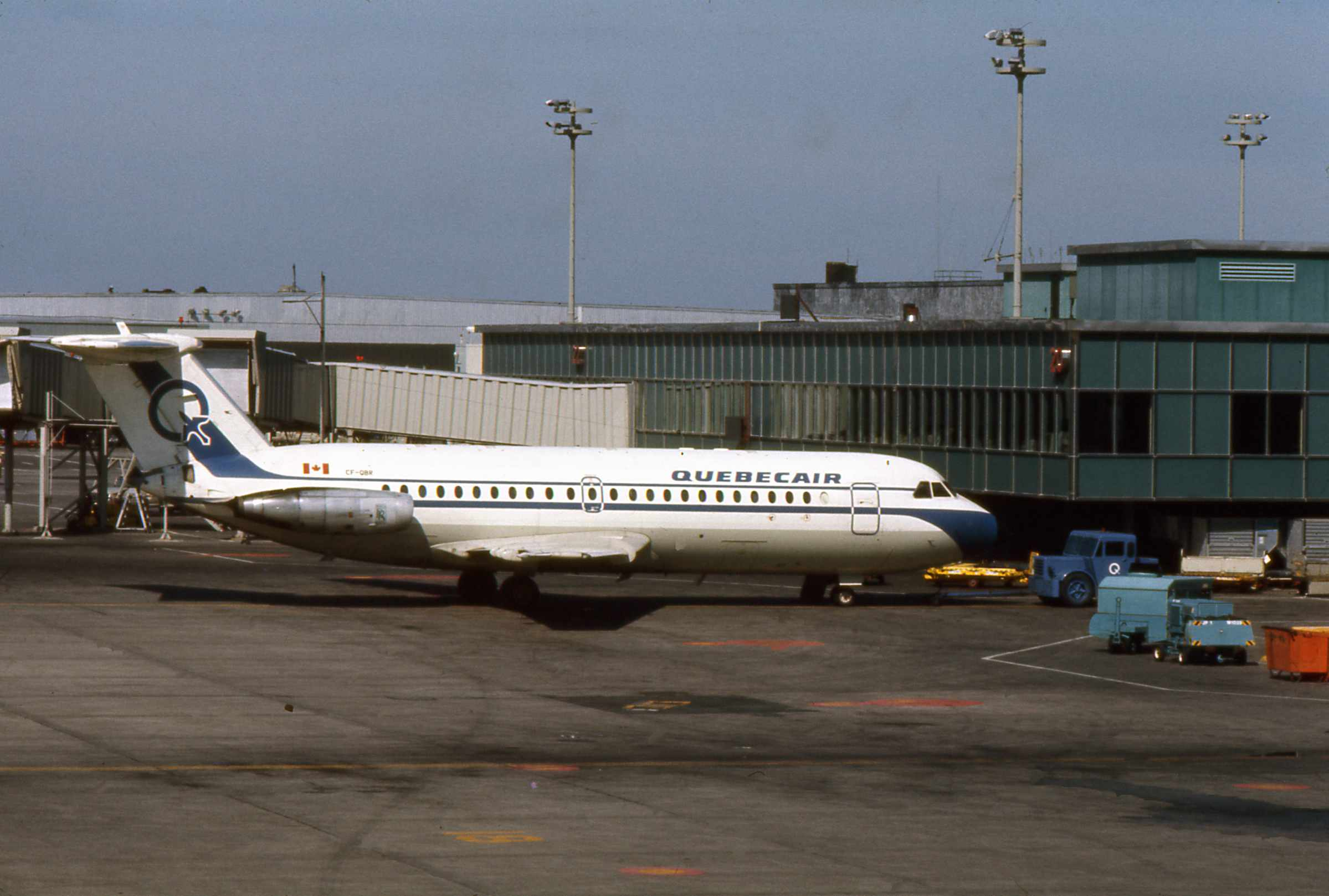 First flight on January 3, 1967 as G-AVEJ, ordered from Panair do Brasil but was not delivered because the airline ceased operations. Leased to Bavaria Fluggesellschaft as D-AFWB. Delivered to Philippine Airlines as PI-C1141. Delivered to Quebecair and registered CF-QBR then C-FQBR. Sold to Okada Airlines as 5N-AOW. On June 26, 1991 on flight from Benin Airport to Kano Airport had to diverte to Sokoto because Kano airport closed due to bad weather. In the meanwhile Sokoto airport closed too. The plane circled for one hour then was forced to make an emergency landing due to fuel shortage. Landed 10 km from Sokoto airport causing three fatalities between passengers, the plane was written off.